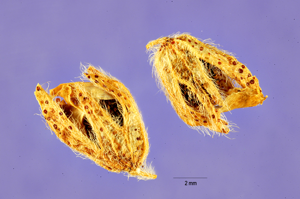 Fruit of Cullen americanum (PI 224639) from Morocco